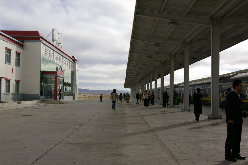 Naqu Railway Station @ Tibet 青藏铁路那曲站